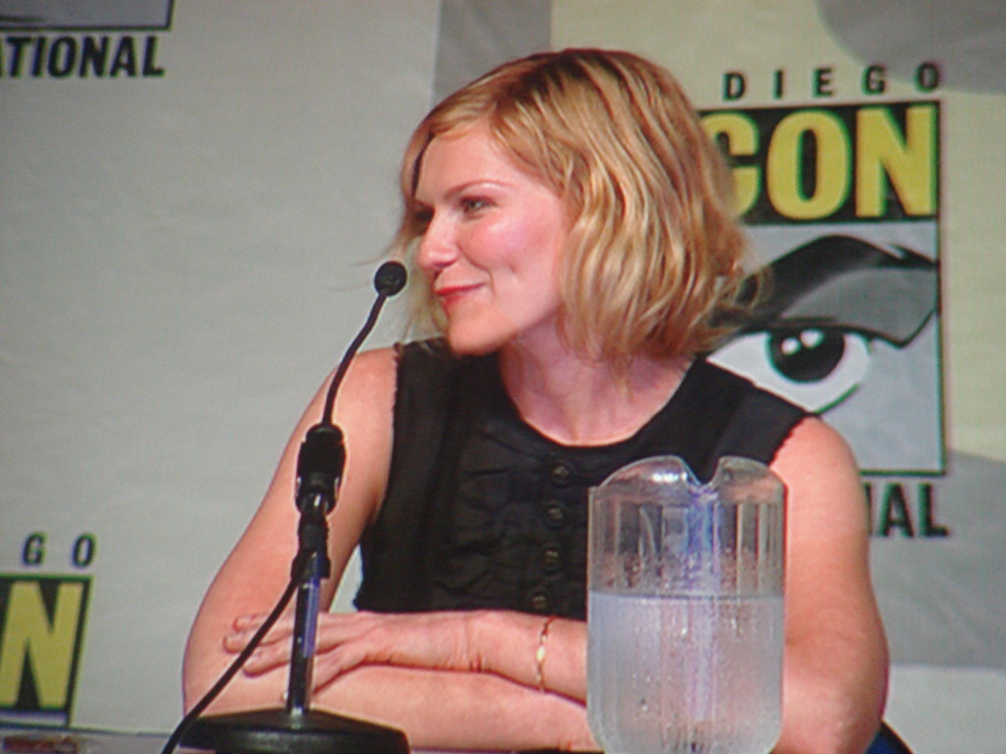 Kirsten Dunst at the San Diego Comic Con in San Diego, CA in 2006.